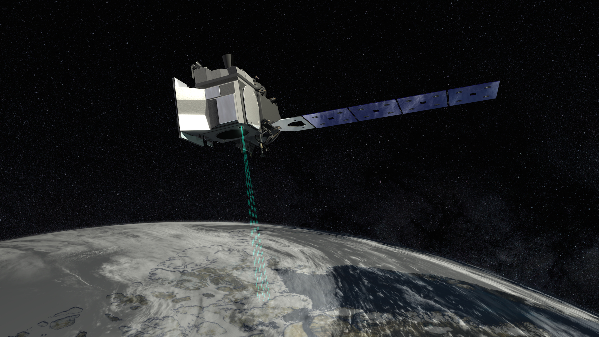 An artist's rendition of the ICESat-2 satellite